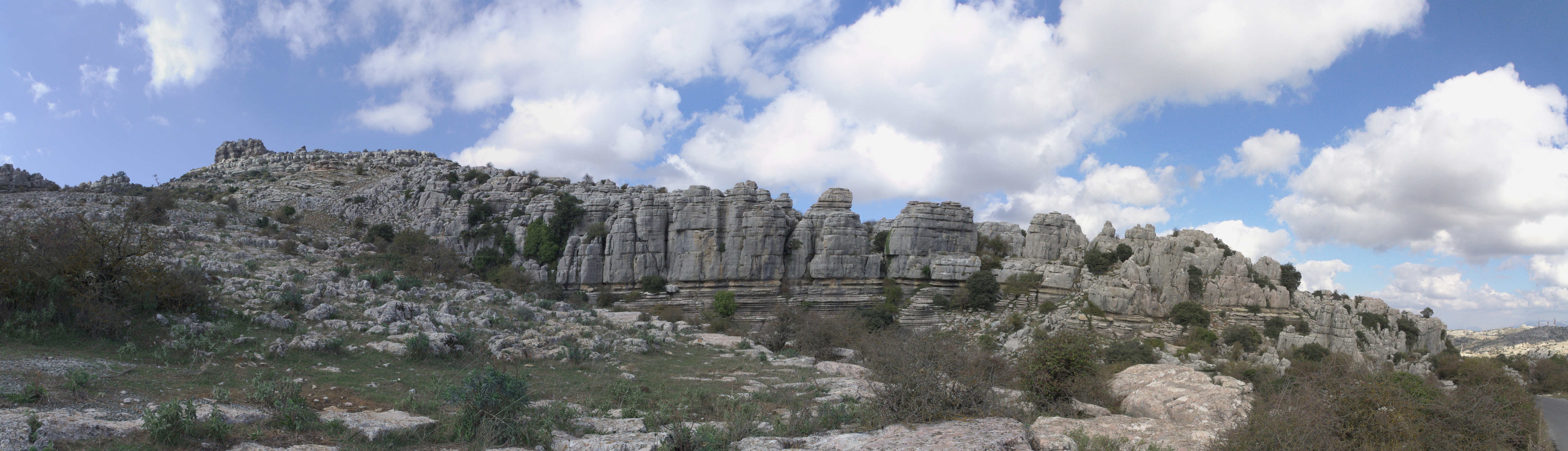 El Torcal / Andalusia, Spain Karst formation